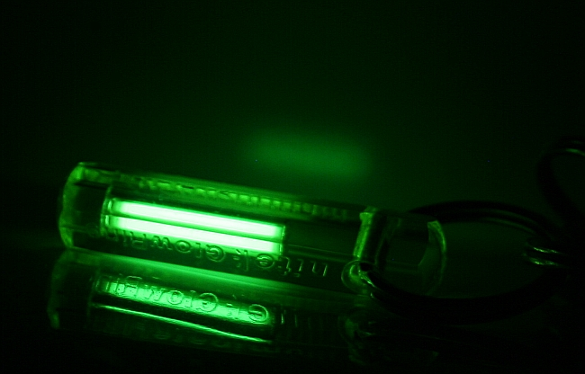 Radioluminescence. Keychain "Glowring" by UK company "NIte".